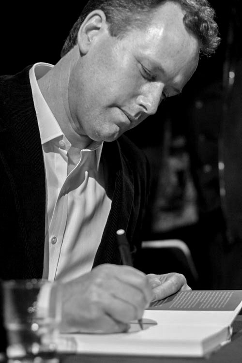 Edward St Aubyn (born 14 January 1960) is an English author and journalist most prominent for his semi-autobiographical Patrick Melrose novels. He is the author of eight novels. In 2006, Mother's Milk was nominated for the Booker Prize.